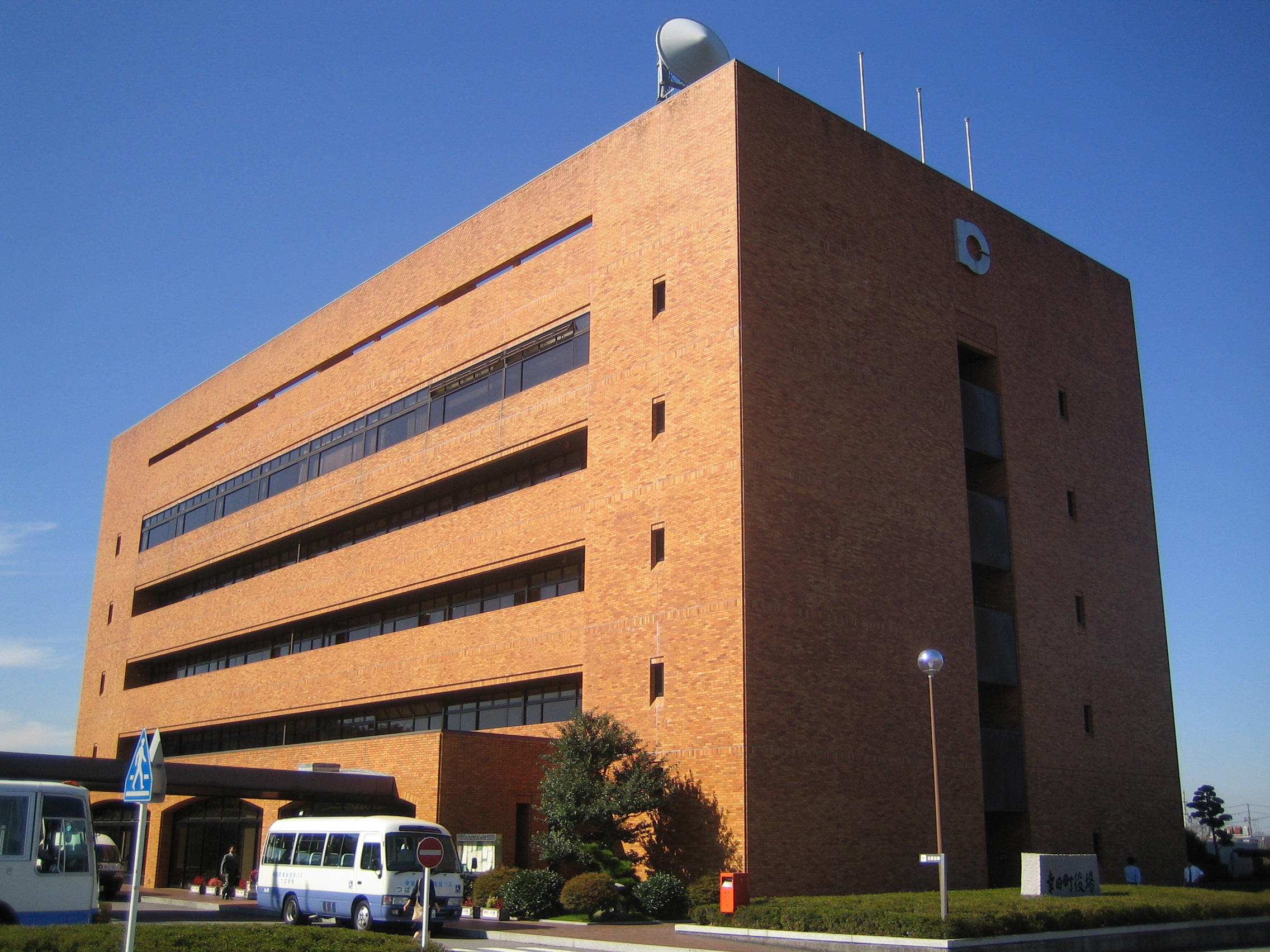 幸田町役場。愛知県幸田町 Kota town office (幸田町役場), in Kota, Aichi, Japan